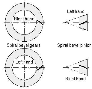 Spiral bevel handedness, spiral bevel gear